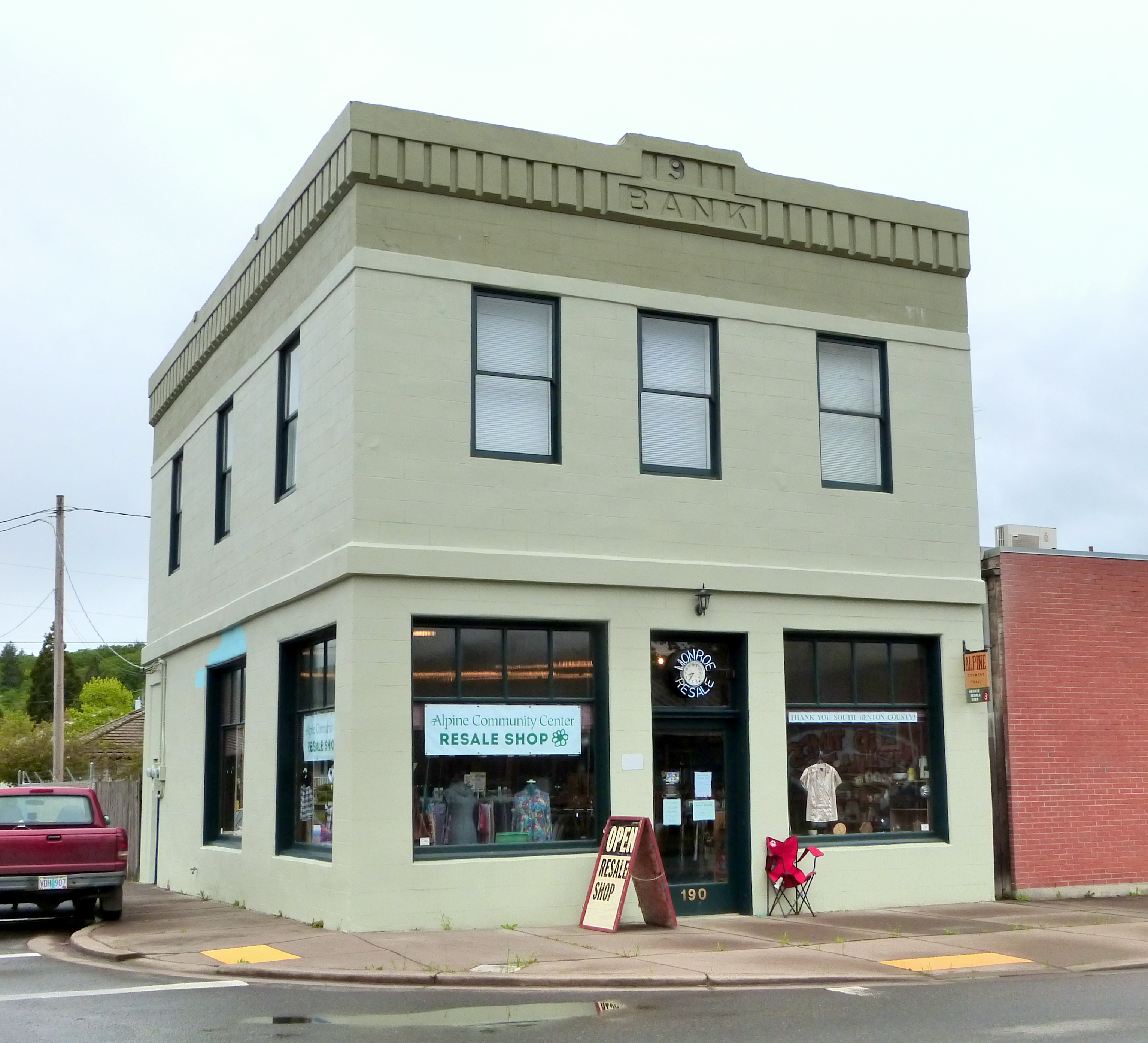 The historic Monroe State Bank Building (built 1911), located at 190 South 5th Street in Monroe, Oregon, United States, is listed on the U.S. National Register of Historic Places. As of the photo date, the lower level of the building is operating as a second-hand shop.